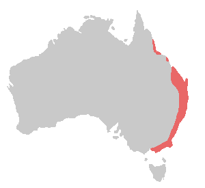 Distribution map of the Australian King Parrot (Alisterus scapularis). Based on Image:BlankMap Australia.png Created by Kiwifruitboi 10:50, 14 May 2007 (UTC)